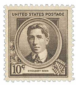 US postage stamp: 10-cent stamp commemorating Ethelbert Nevin (1862-1901) issued June 10, 1940.